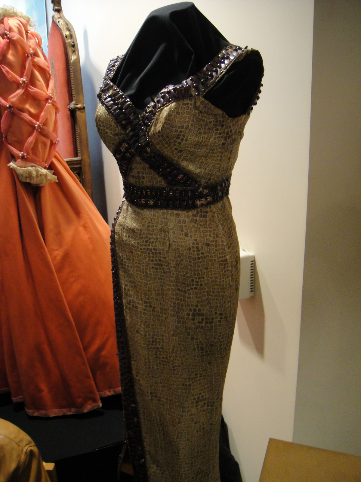 at the Debbie Reynolds Auction Breaks Up Historic Hollywood Collection (The Paley Center for Media in Beverly Hills, Los Angeles, CA, USA).